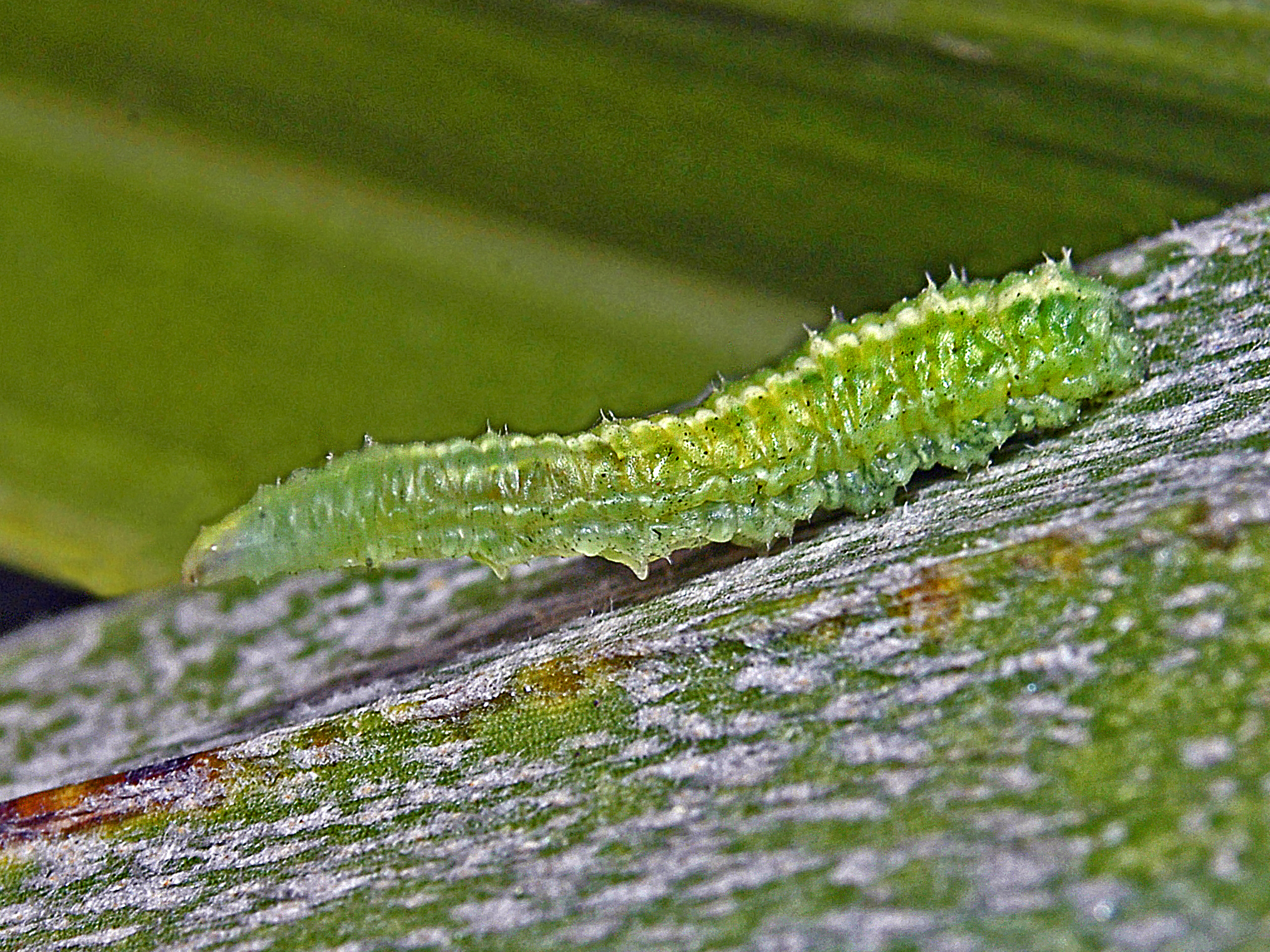 Larva of Scaeva cf. pyrastri. Genova, Italy